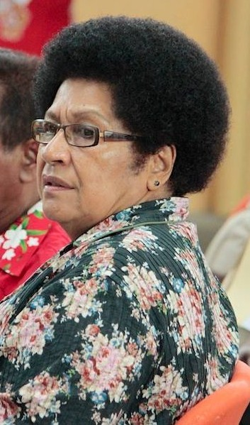 Luveni at Nadi for a function (cropped) Depicted person: Jiko Luveni – Fijian politician